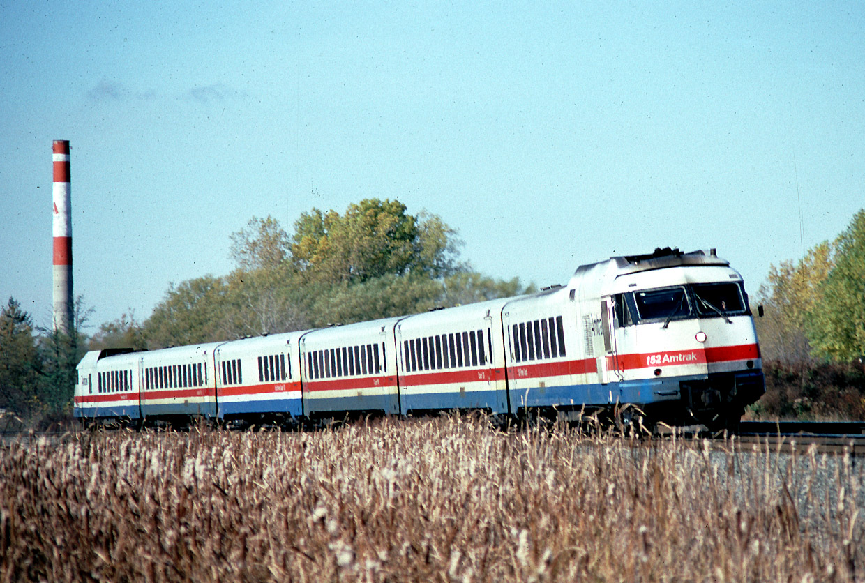 An RTL Turboliner trainset near the Baird Road crossing in East Rochester, New York. In the early 1970s New York State put up money for high speed rail service between New York City and Buffalo. Some of those funds went to purchase these turbine trainsets, some to upgrade sections of track for 110MPH operation. These trains were built by California's Rohr Industries, based on a French design already in use on some Midwest routes.